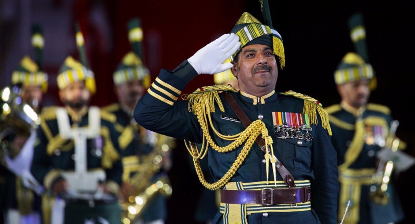 Тирольские стрелки, кельты и карабинеры: парад «Спасской башни» на ВДНХ